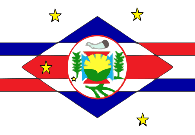 Flag of Aratitaba, a municipality of the Brazilian state of Minas Gerais